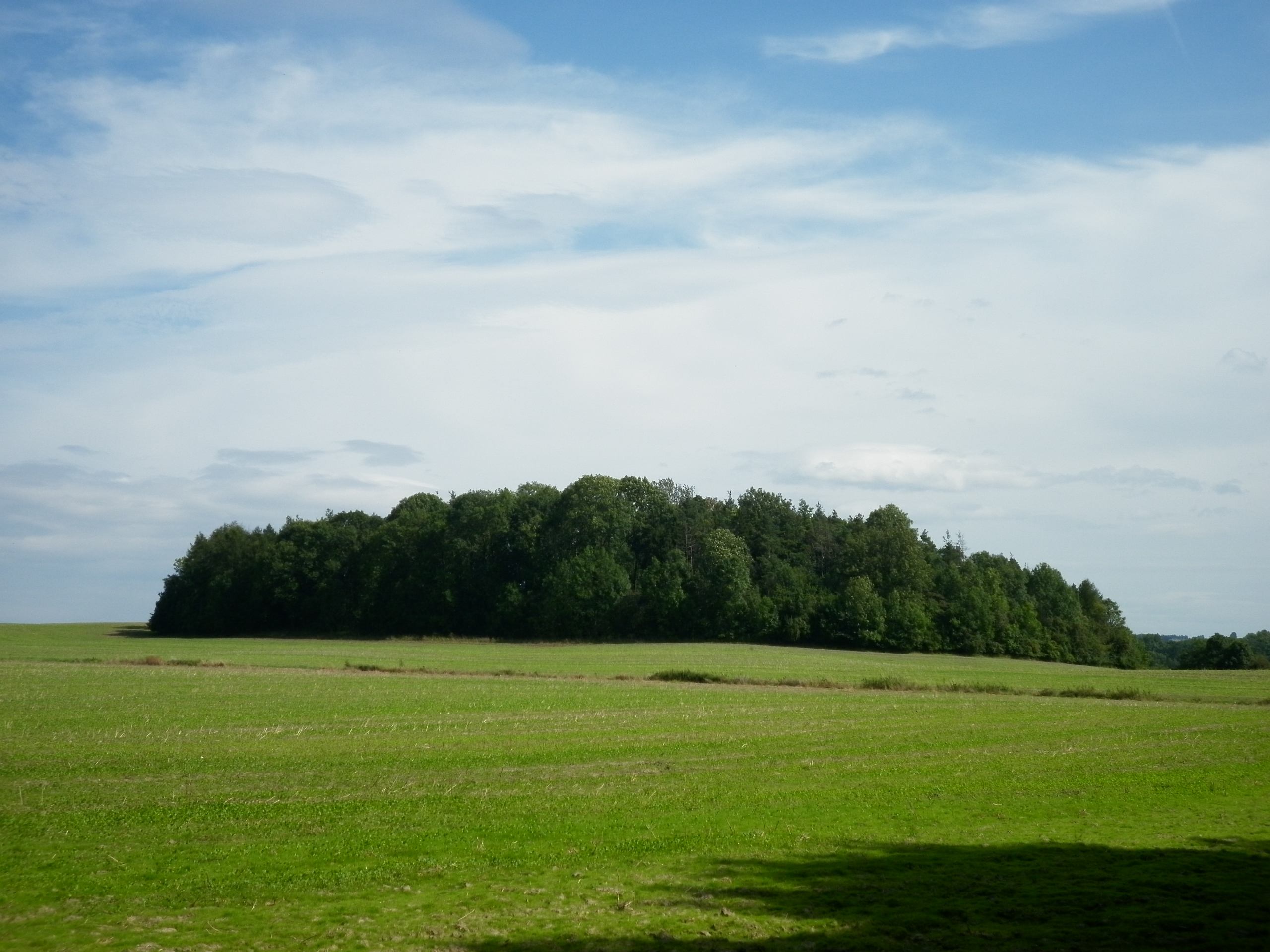 Natural monument "Stráň u Trusnova" in Pardubice District, Czech Republic. Part of a hillside with putative occurence of Gentianopsis ciliata "Borek" hill from south